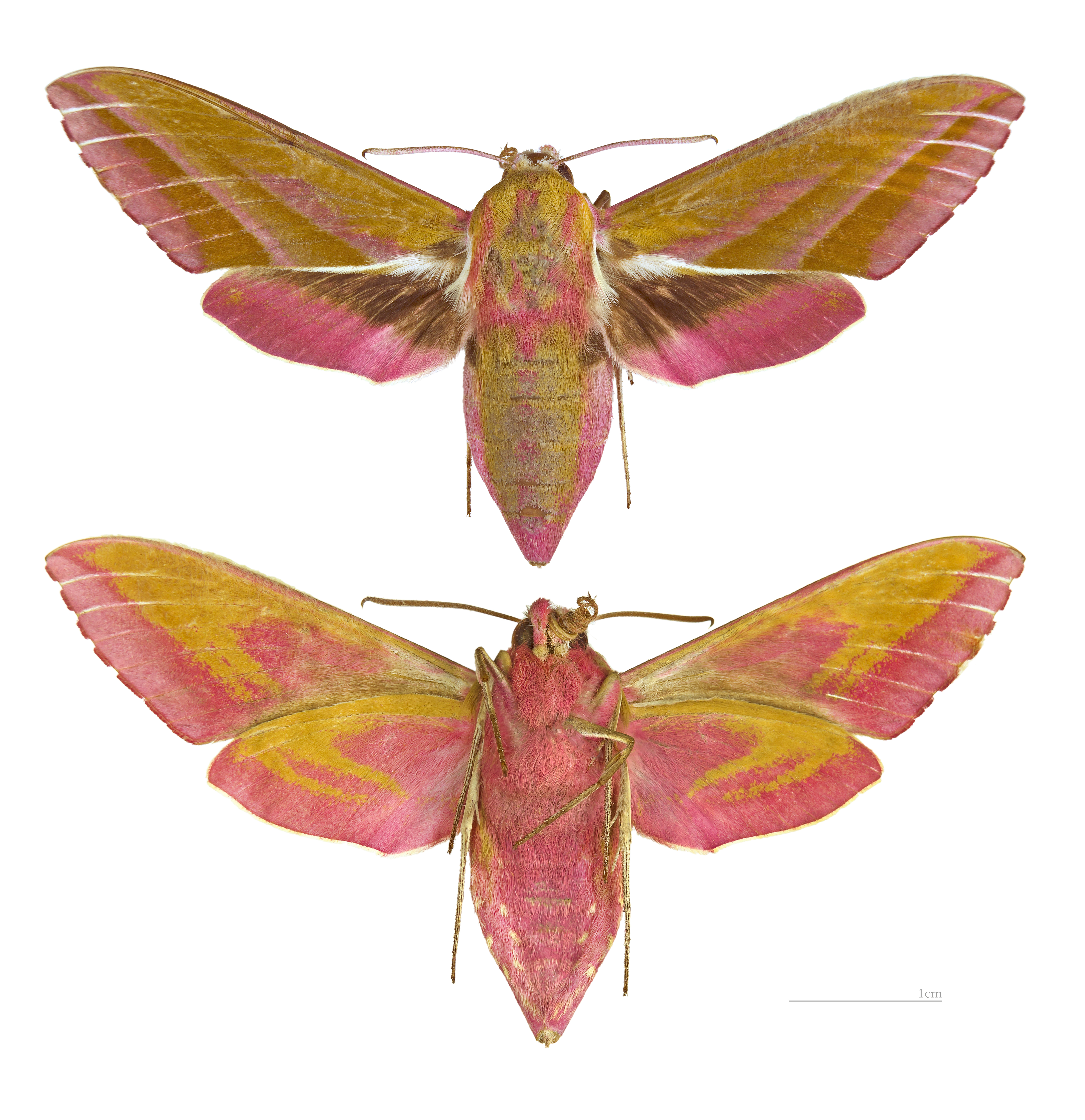 Elephant Hawk-moth - Dorsal side